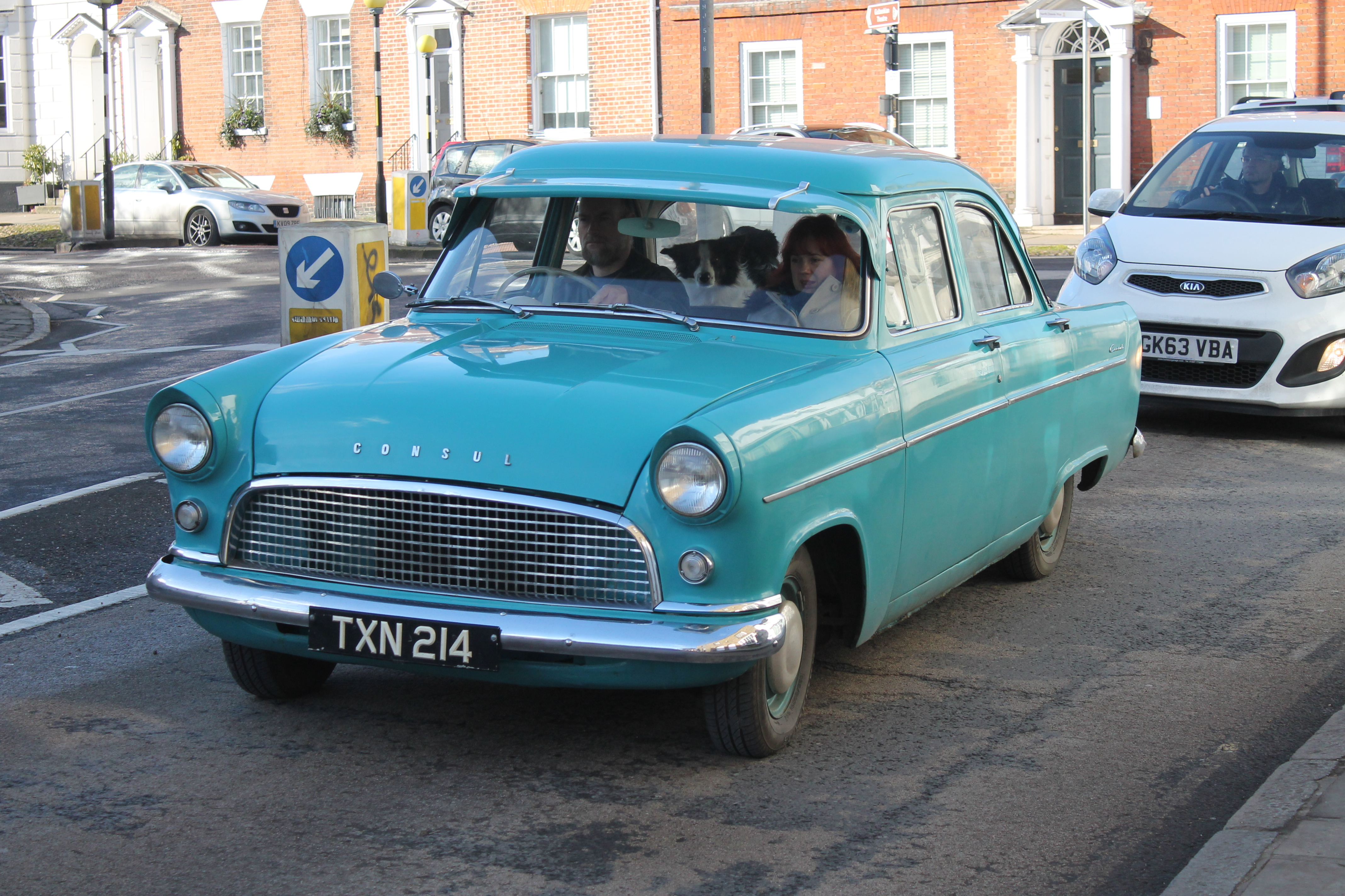 What an absolute joy of a car, in a perfect colour and original condition! Fortunately for me this one was being held up at a level crossing so I was able to get a couple of snaps of it. In my opinion they don't come much better than this- original condition and driving on the roads in winter, albeit a nice sunny day. Note the two happy looking dogs on the back seats! It's been in the same hands since 1981. although the driver looks fairly young so I'm guessing it perhaps belonged to other family members. XN code hasn't been used since 1974 so an old plate too. Registration number: TXN 214 ✔ Taxed Tax due: 01 July 2015 ✔ MOT Expires: 02 July 2015